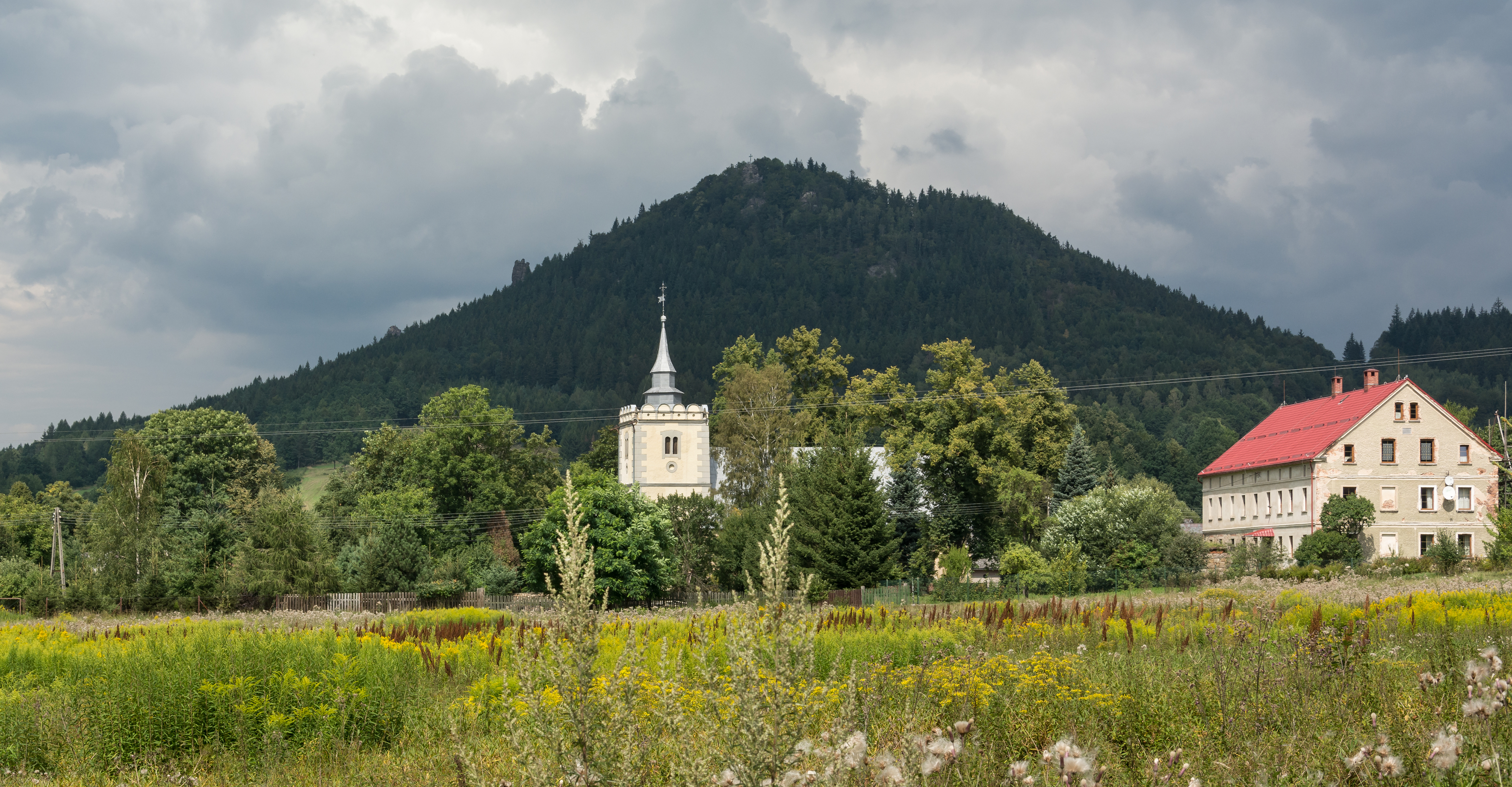 Krzyżna Góra, Sokole Mountains, Sudetes